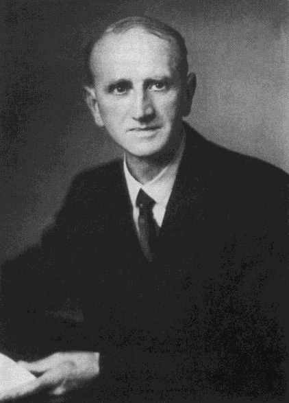 Portrait, taken long time ago